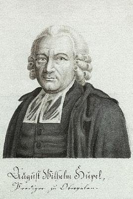 A portrait of en::en:August Wilhelm Hupel. Public domain, digitised by en::en:EEVA. EEVA notes as source "Johann Christoph Brotze, Bd. 5". en::en:commons:Category:Estonia en::en:commons:Category:Linguists en::en:commons:Category:Academics